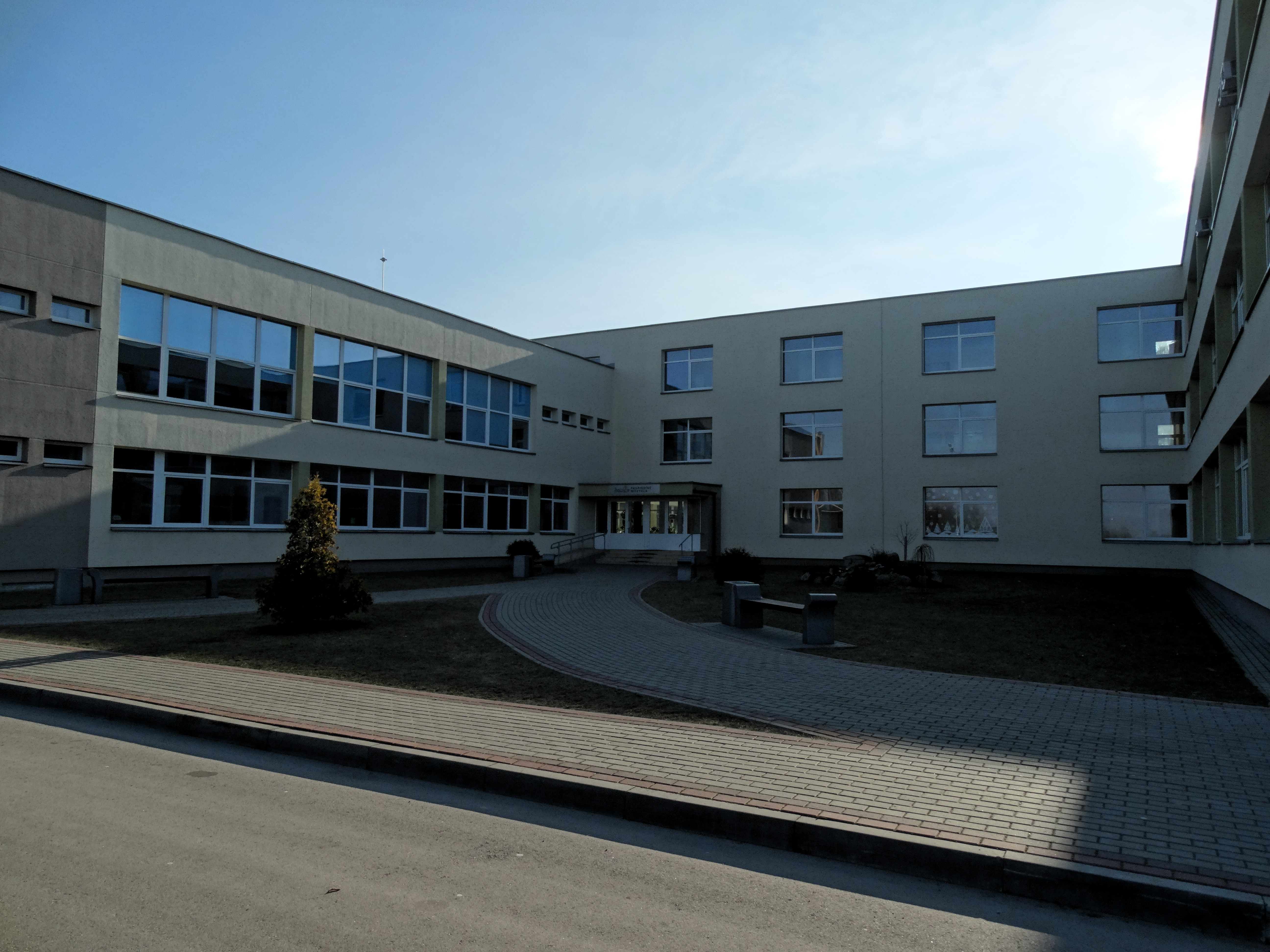 Basic school Saulė, Druskininkai, Lithuania